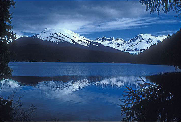 THIS IS LOCATED IN JUNEAU COUNTY JUST NORTH OF JUNEAU CITY